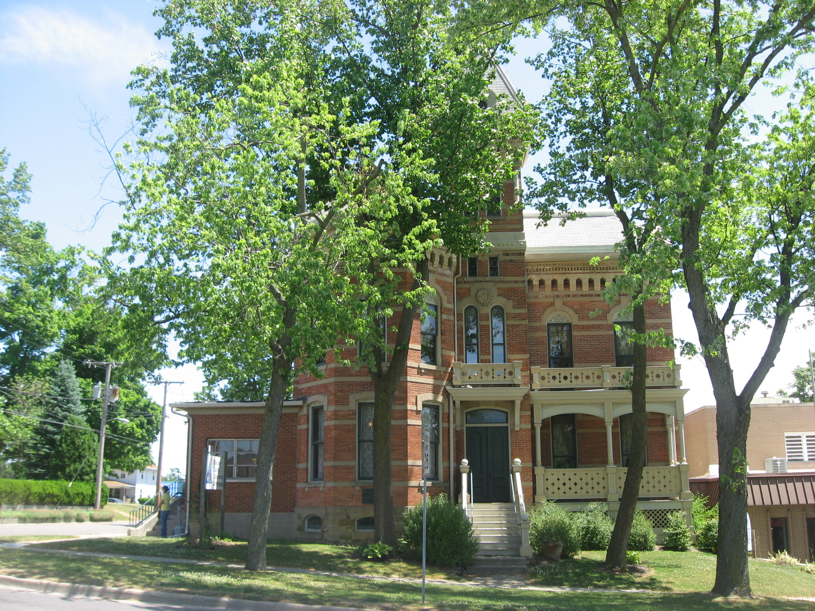 Front of the Steuben County Jail, located at 201 S. Wayne Street in Angola, Steuben County, Indiana, United States. Built in 1877, it is listed on the National Register of Historic Places, and it is part of a Register-listed historic district, the Angola Commercial Historic District.